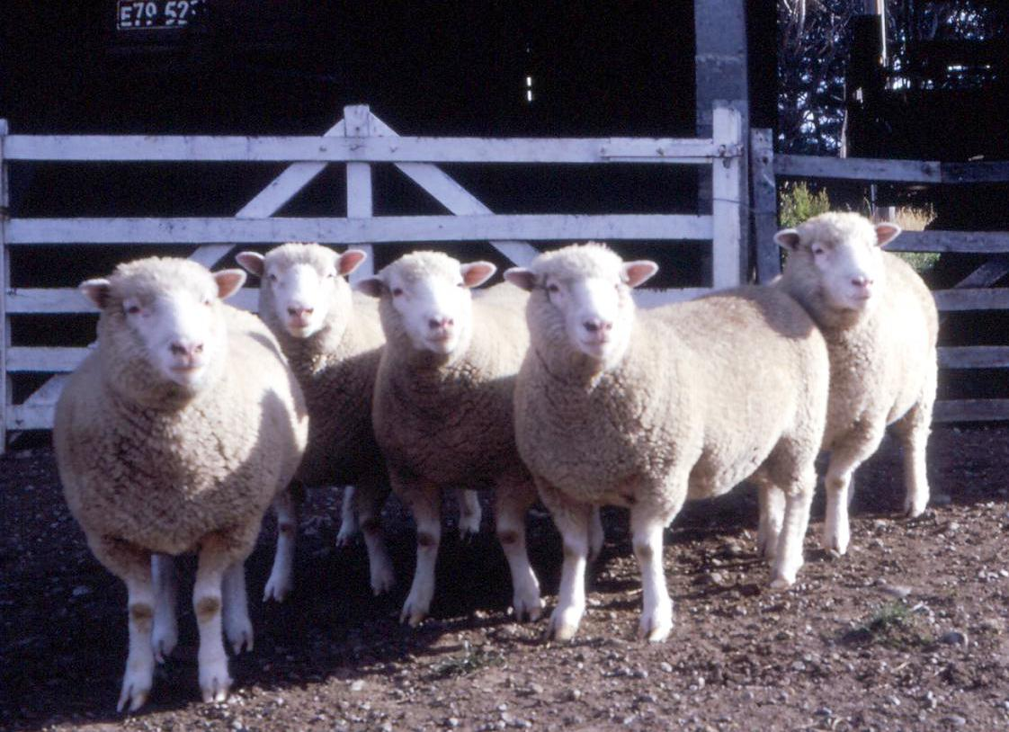 Copland family farm "Tillyfour" Chertsey Mid-Canterbury New Zealand